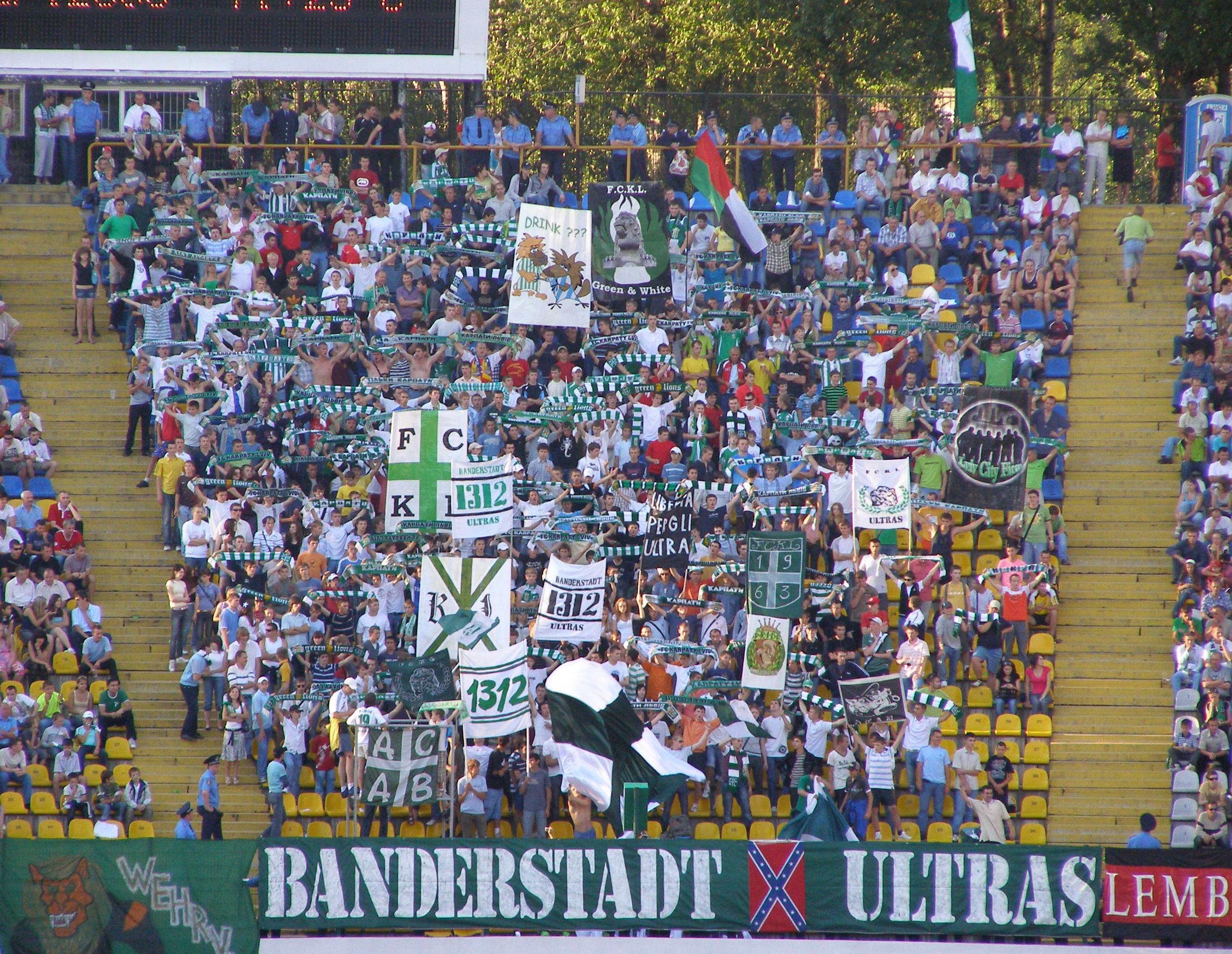 Karpaty Lviv ultras seat bloc at Ukraina Stadium